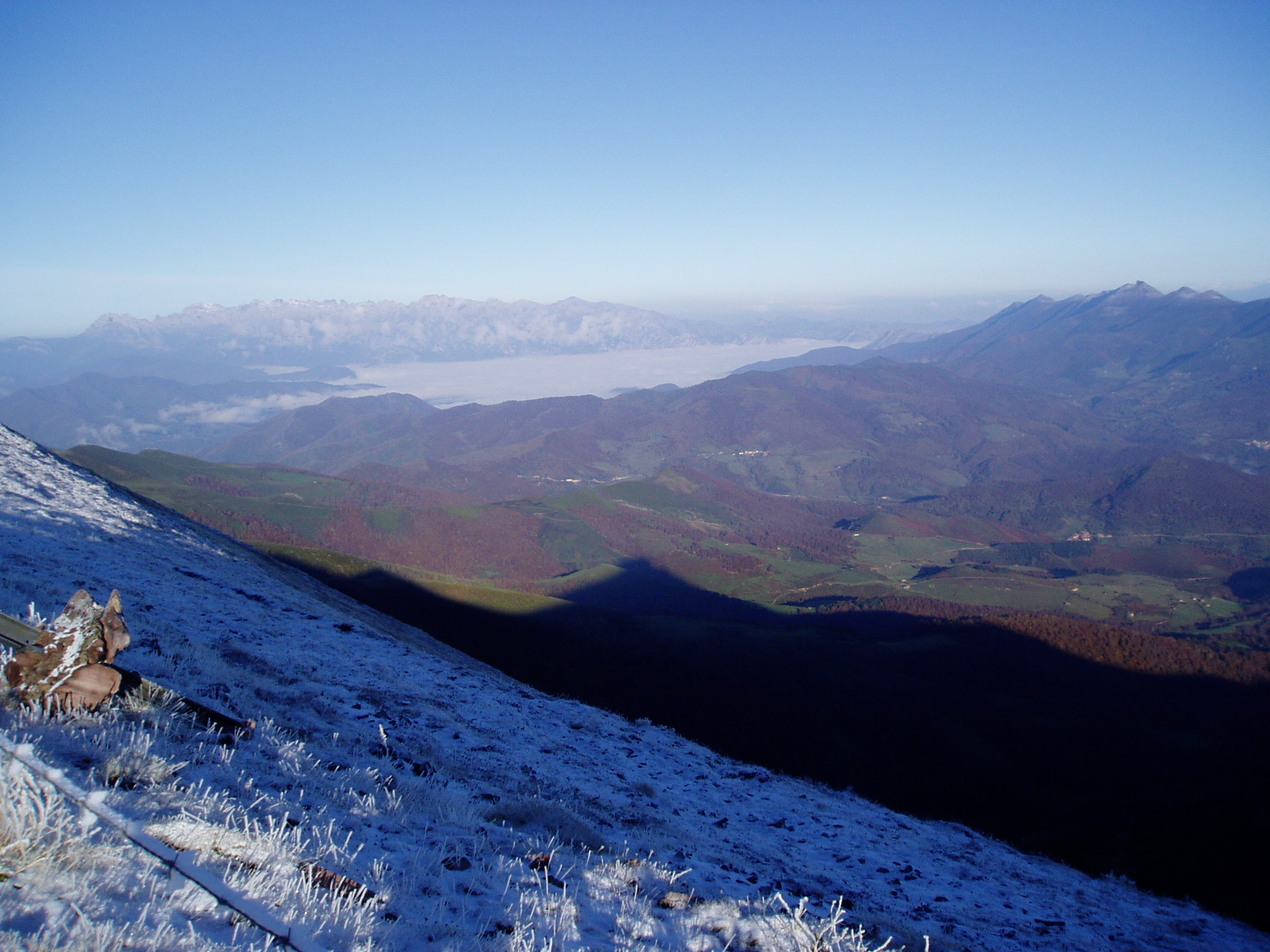 Alto Campoo: Looking down on a cloud filled valley, as if from an aeroplane.